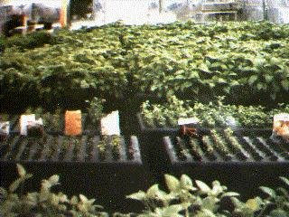 GTI Aeroponic Growing System Aeropnic Greenhouse-1983